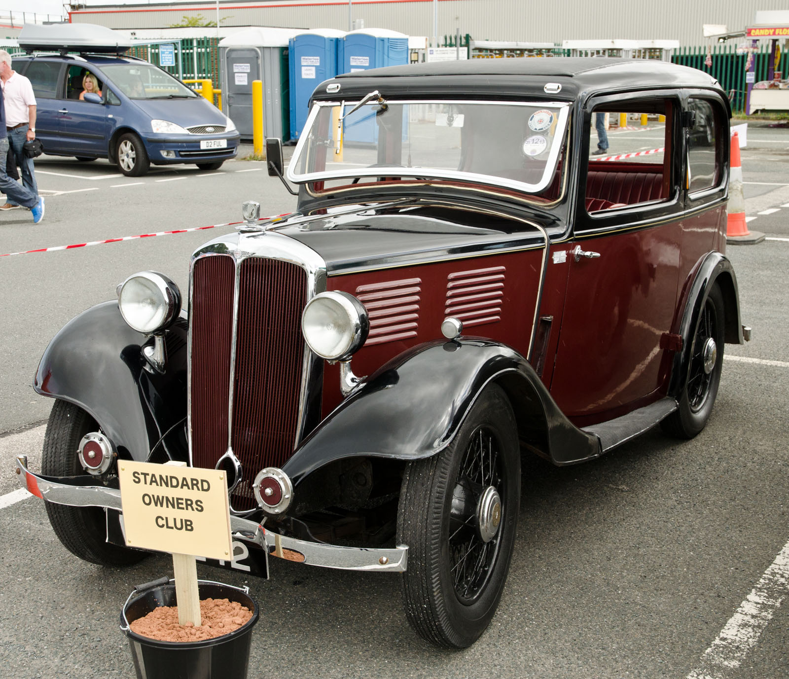 Standard Nine 1934 North Cheshire Classic Car Club at Ellsmere Port 11/08/2013